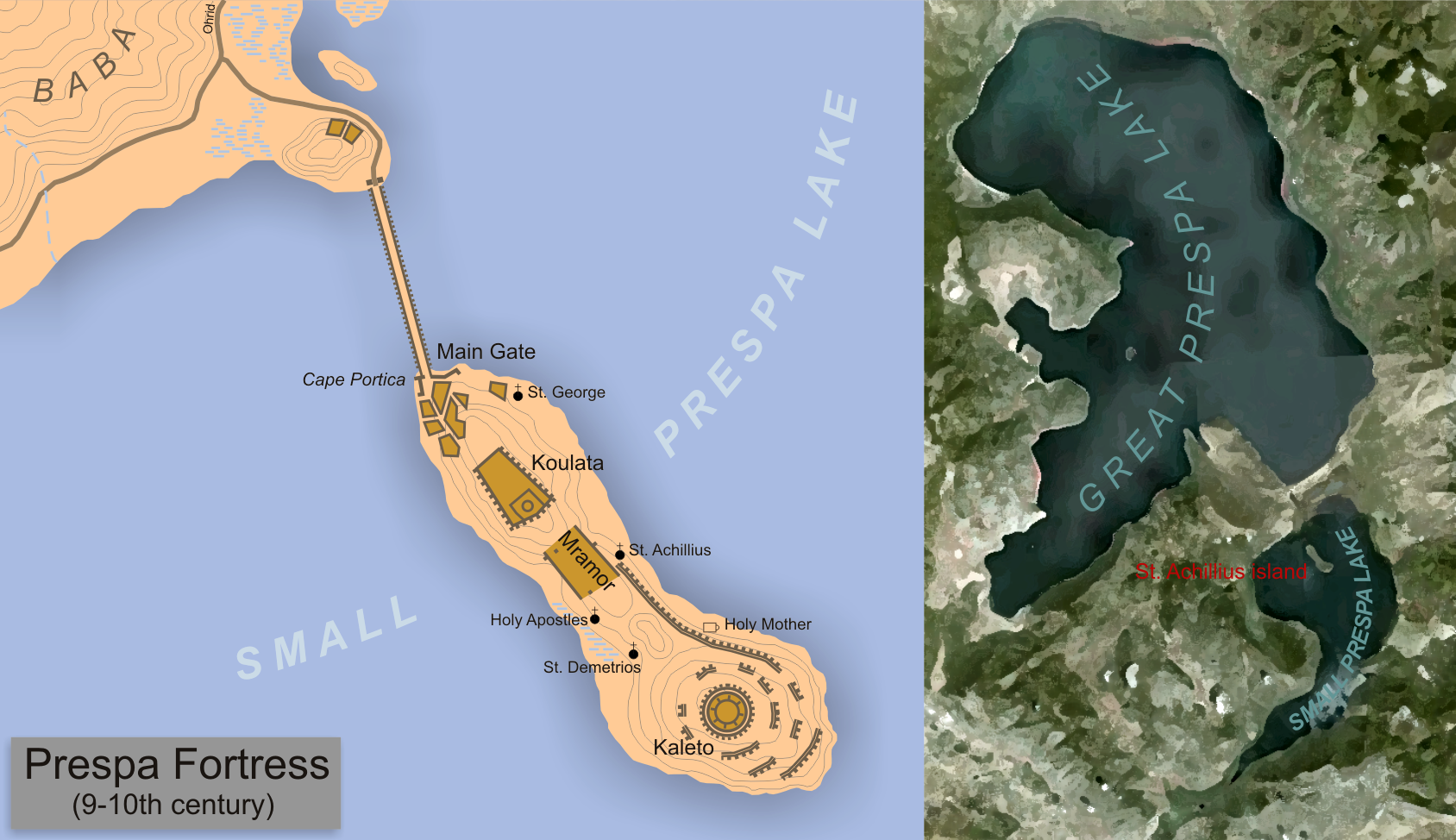 Map of the Prespa Fortess, residence of of the Bulgarian Tsar Samuil, St. Achillius island, Small Prespa Lake, Greece.